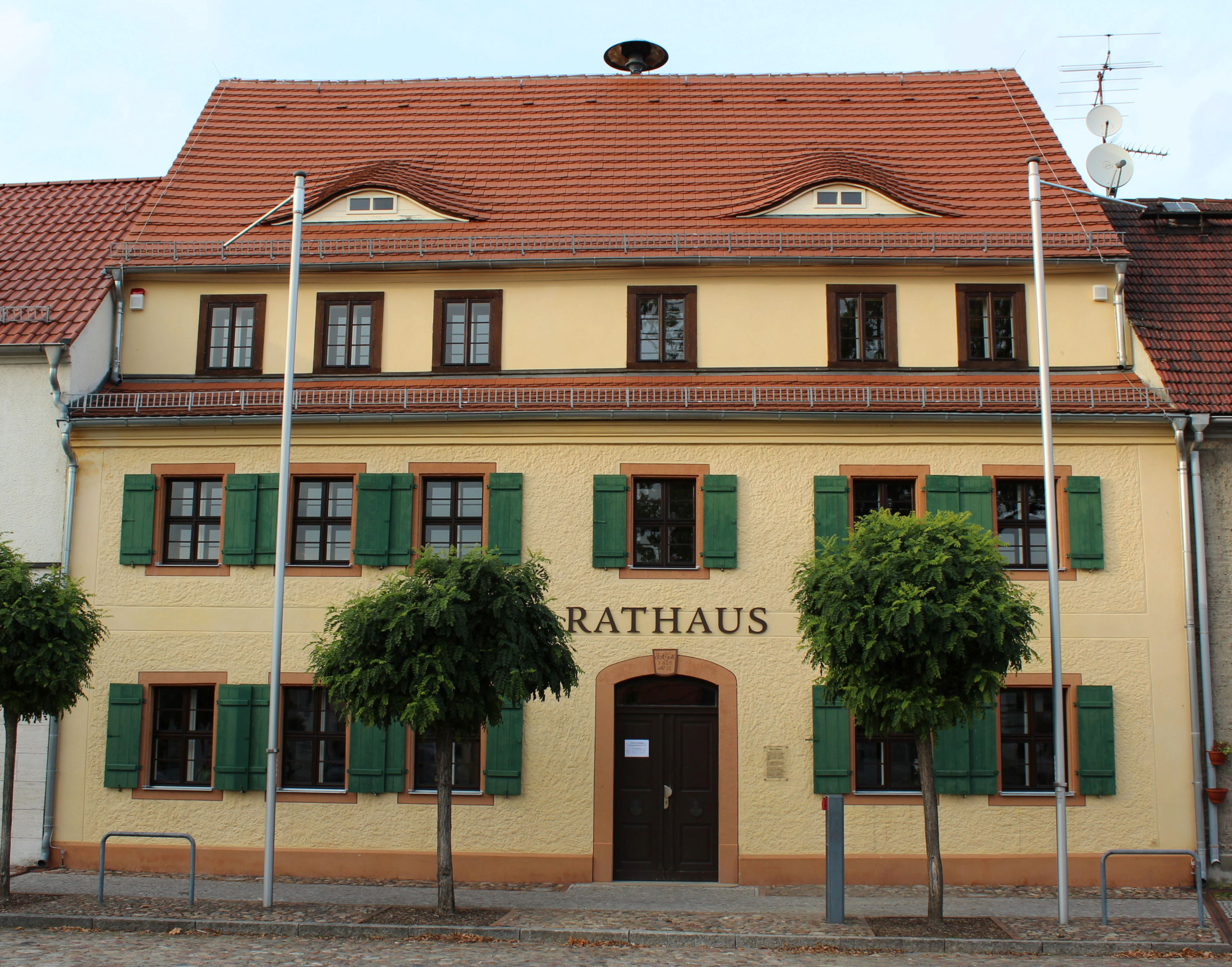 Town hall in Uebigau (Uebigau-Wahrenbrück, Elbe-Elster district, Brandenburg)